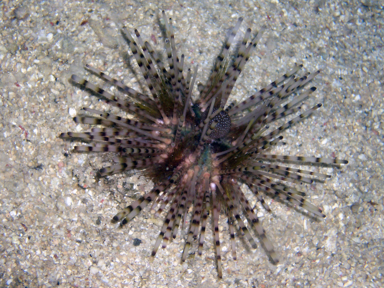 Sea Urchin (Echinothrix calamaris) at Lembeh Strait, North Sulawesi